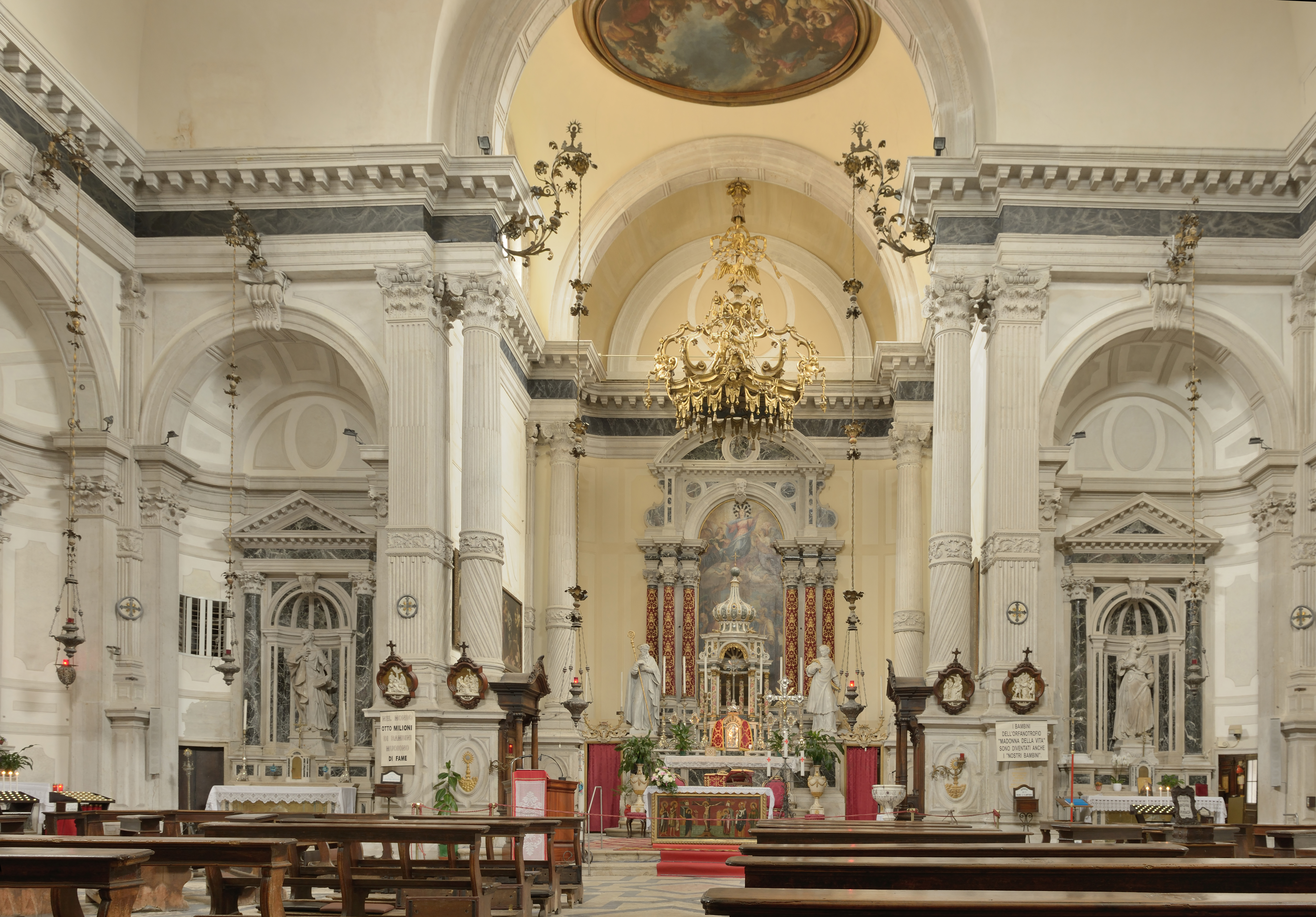 Internal view of the San Marcuola church in Venice.